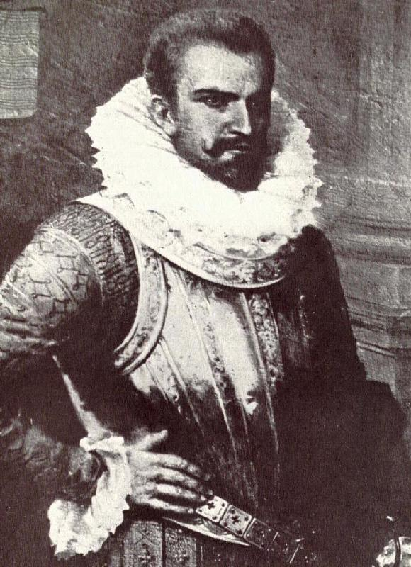 Pedro de Alvarado